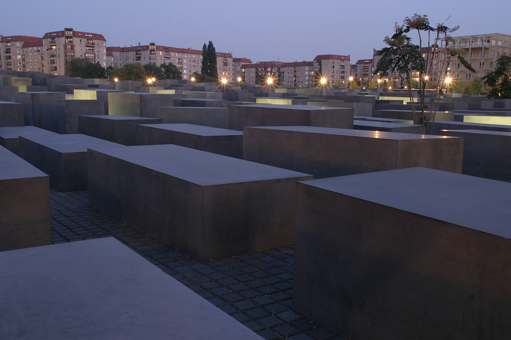 Memorial to the Murdered Jews of Europe (Berlin, Germany) in sunset light